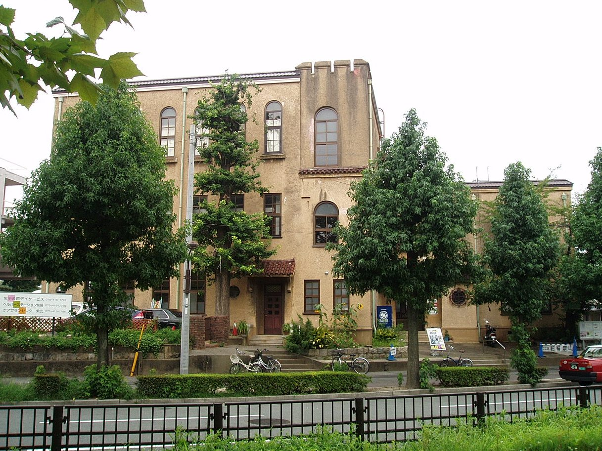 Shimei Kaikan, built in 1932 and formerly used as the alumni hall of Kyoto Normal School (one of the predecessors of Kyoto University of Education), located in Kita-ku, Kyoto, Japan.